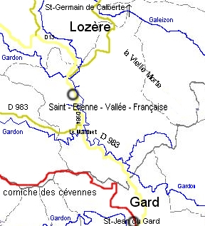 map of Saint-Étienne-Vallée-Française in Lozère - France -points : border of municipality and county -blue: river - yellow-red- marroon : road